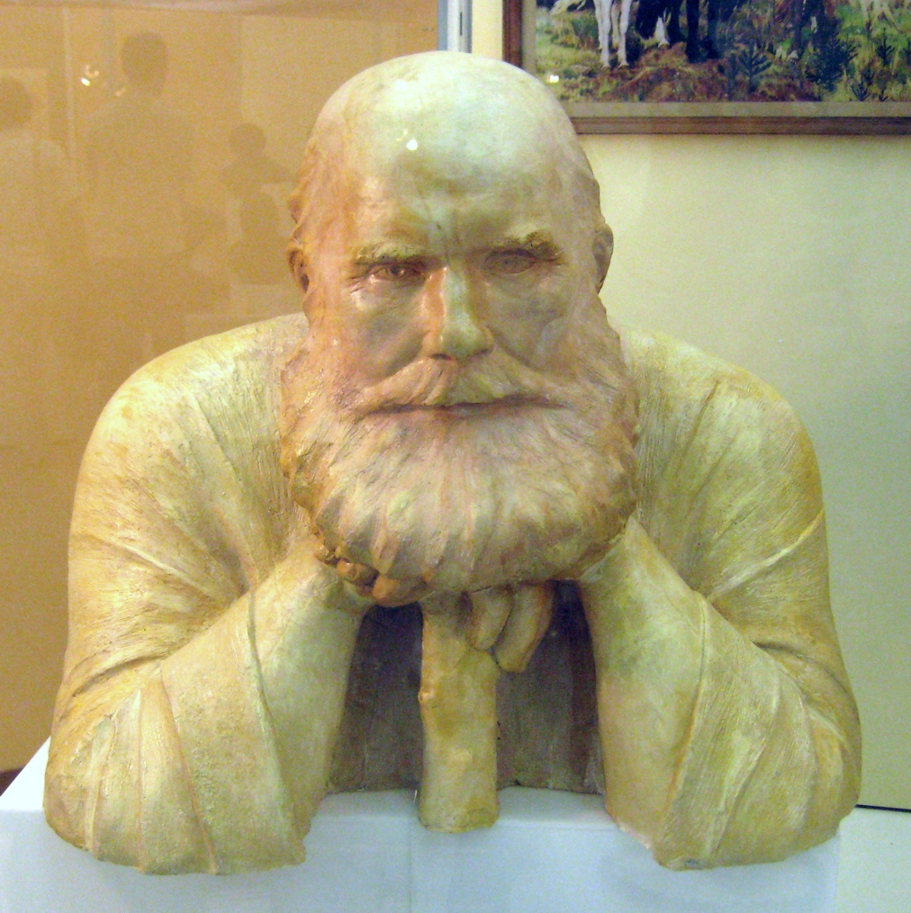 Forensic facial reconstruction of brother Iliya (considered to be Ilya Muromets) made by his relics in Kiev Pechersk Lavra.